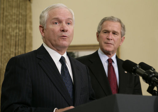 Dr. Robert Gates speaks to the media in the Oval Office Wednesday, Nov. 8, 2006. With more than 25 years of national security experience, Dr. Gates was announced as President George W. Bush's intended successor to Donald Rumsfeld as Secretary of Defense.